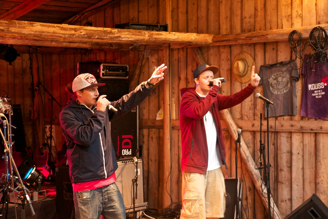 Jaa9 & OnklP in da woods.